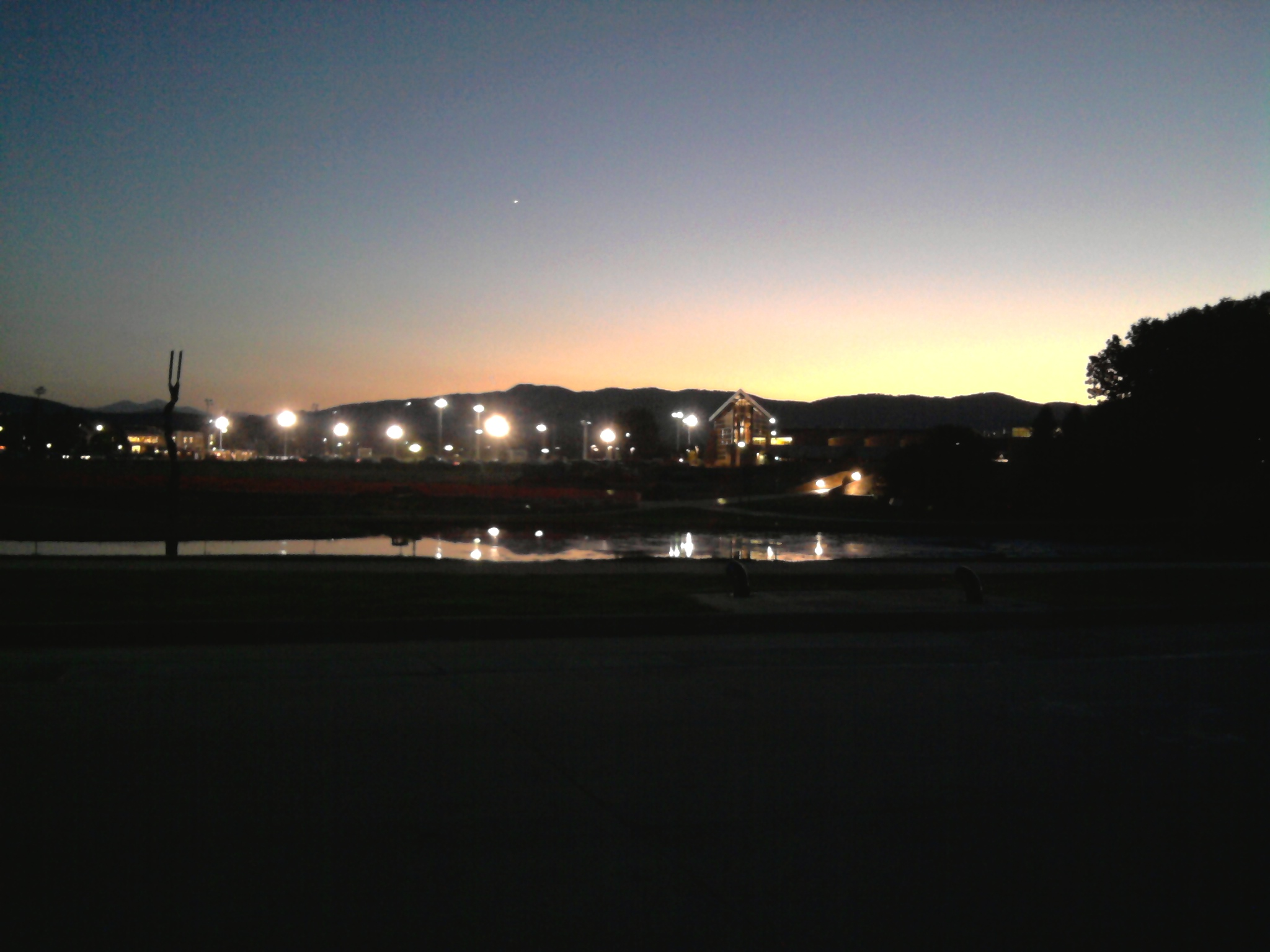 View of the Lagoon and Rec Center at CSU.